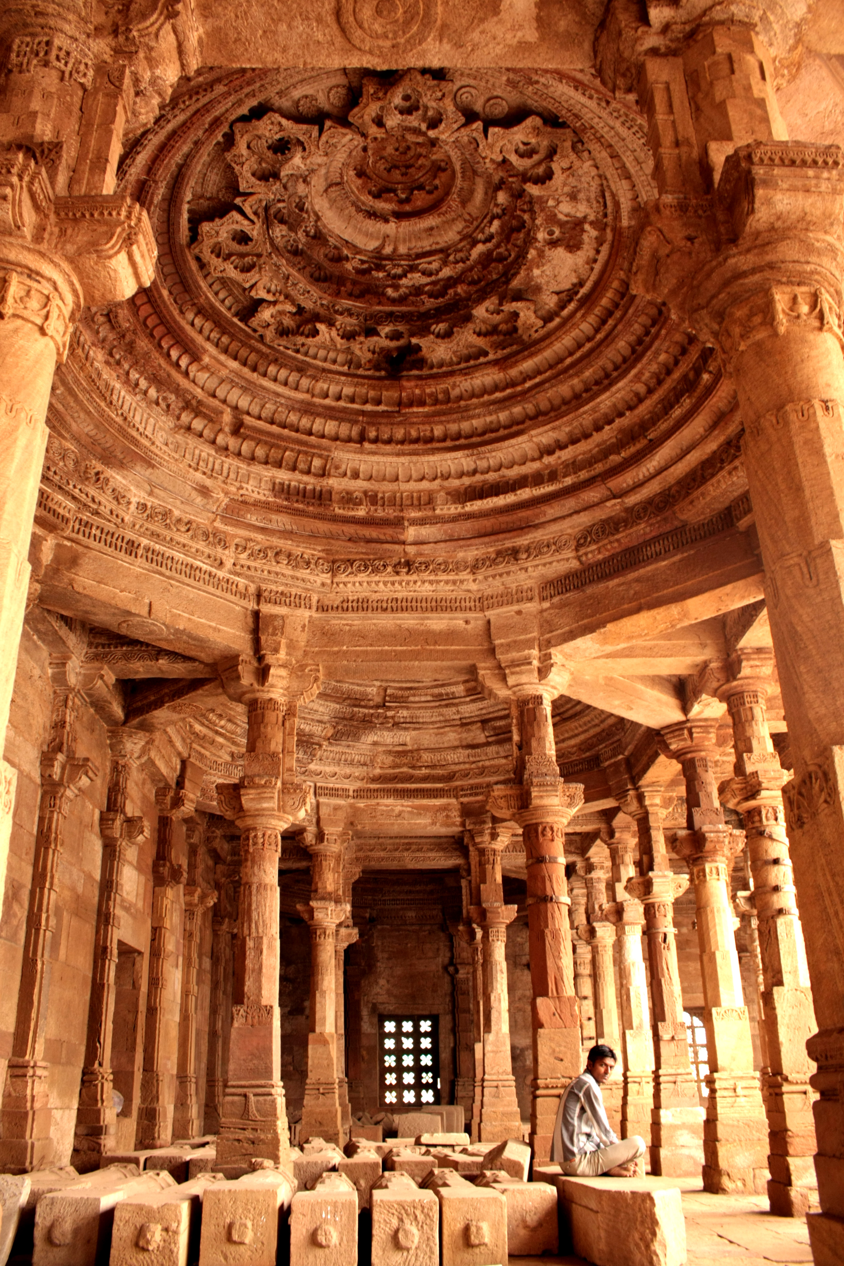 Photograph taken from the entrance corridor area of Jami Masjid looking towards the eastern wall. Location - Khambhat (Anand District), Gujarat - India